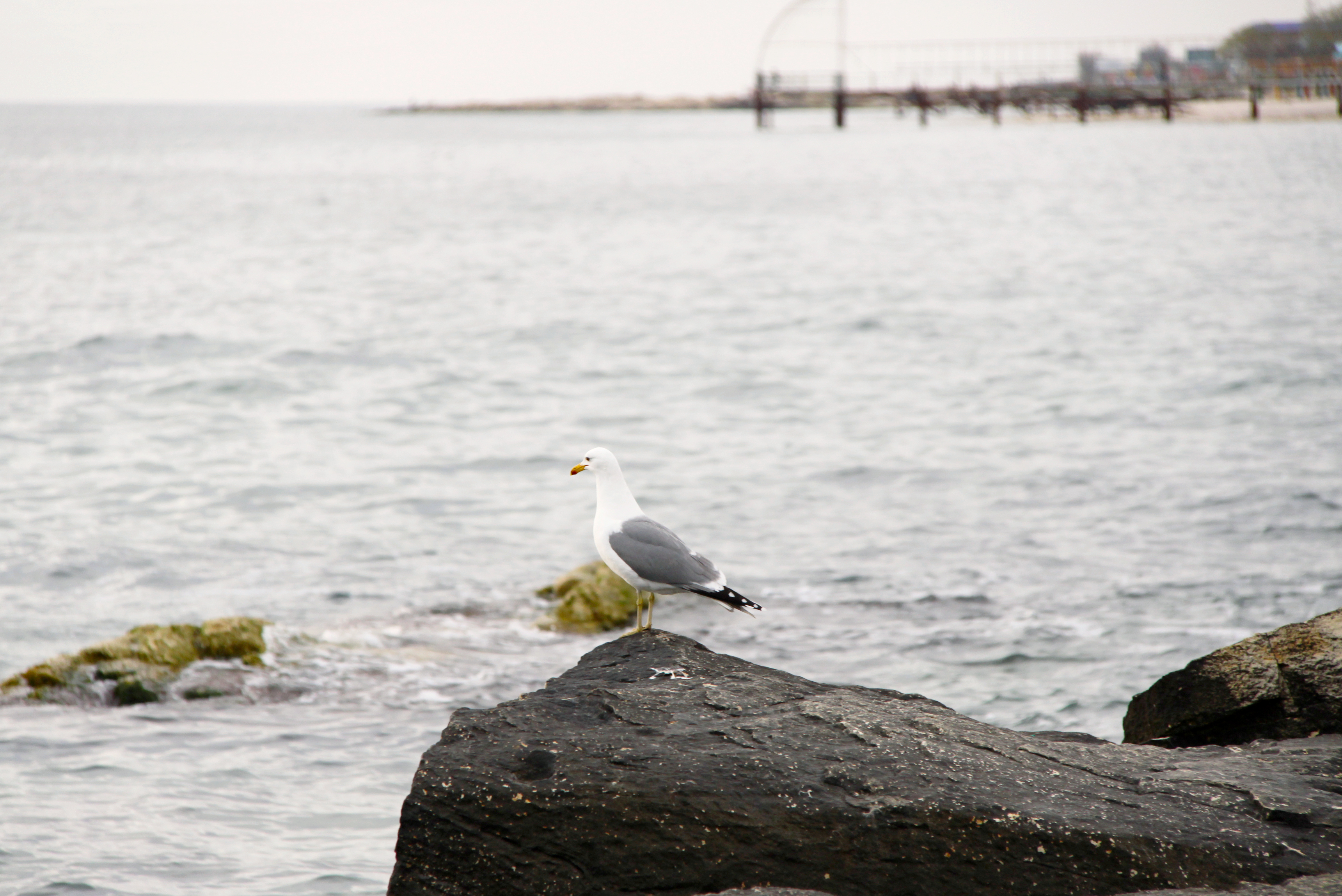 Larus cachinnans or intergrade between this and L. fuscus barabensis